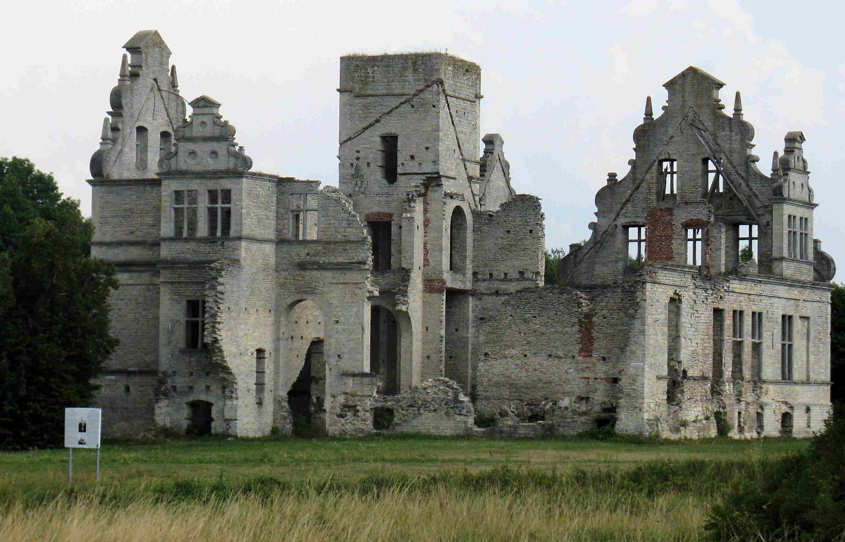 Ungru manor, Haapsalu, Estonia, northern facade